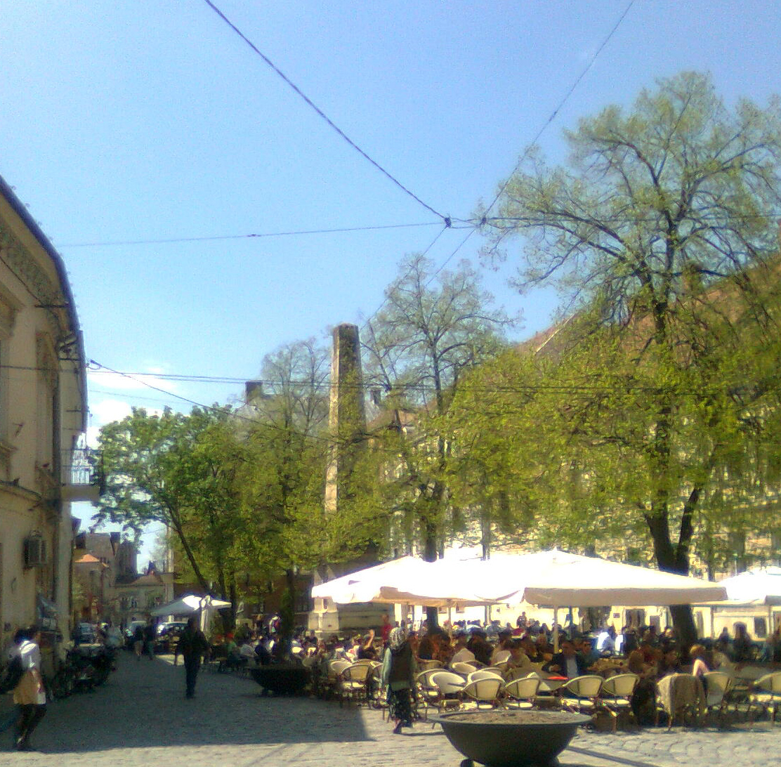 Museum Square in Cluj